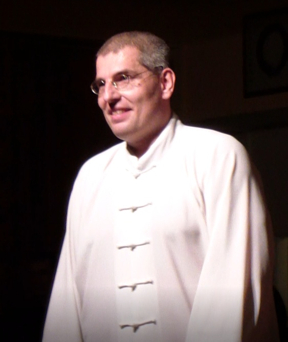 Radek Kolář (* 1970) is a professional instructor of the traditional Chinese arts of Tai Chi Chuan, Chi Kung and the successor of the 20–th generation of Chen Tai Chi Chuan. Radek Kolář has been studying Chinese Tai Chi since 1985, in 1999 Master Zhu Tiancai adopted him as his personal disciple and taught him to the family style of Tai Tai Chi, and since 2001 Radek Kolář has been leading the school - Taiji Academy in Prague in Vinohrady and since 2013 he has been running the Traditional Tai Chi School Talavan in southern Bohemia. In 2002, 2003, 2004, 2005 and 2011, Radek Kolář won the highest award (gold medal) in the category of the traditional Chen Tai Chi Chuan forms at competitions in Jiao Zuo (China) and Johor Bahru (Malaysia).